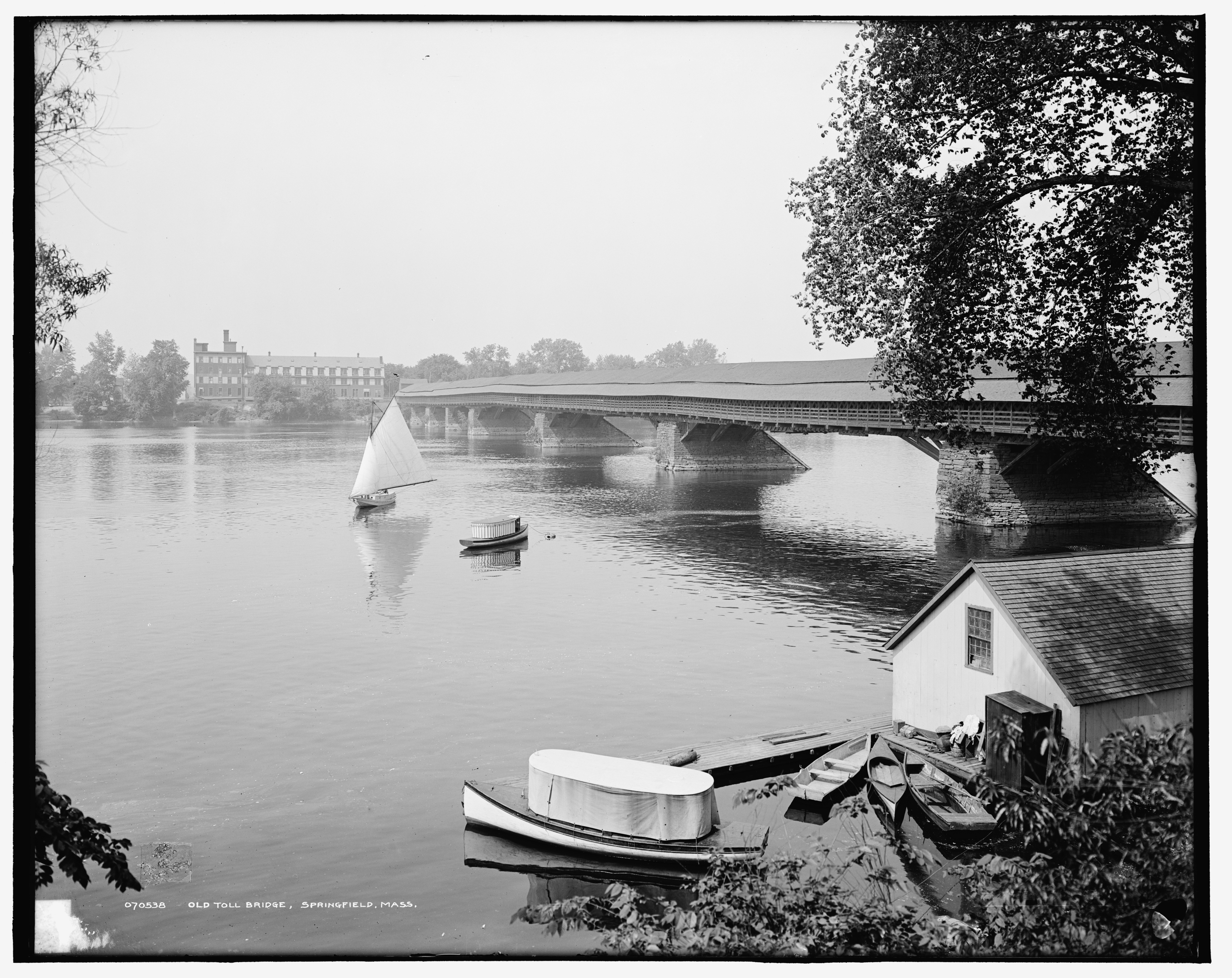 The Old Toll Bridge in Springfield, Massachusetts, around 1908